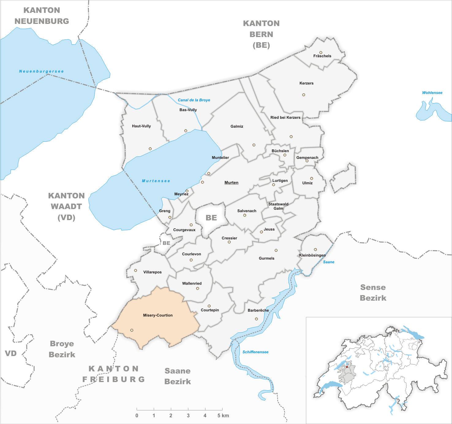 Municipality Misery-Courtion